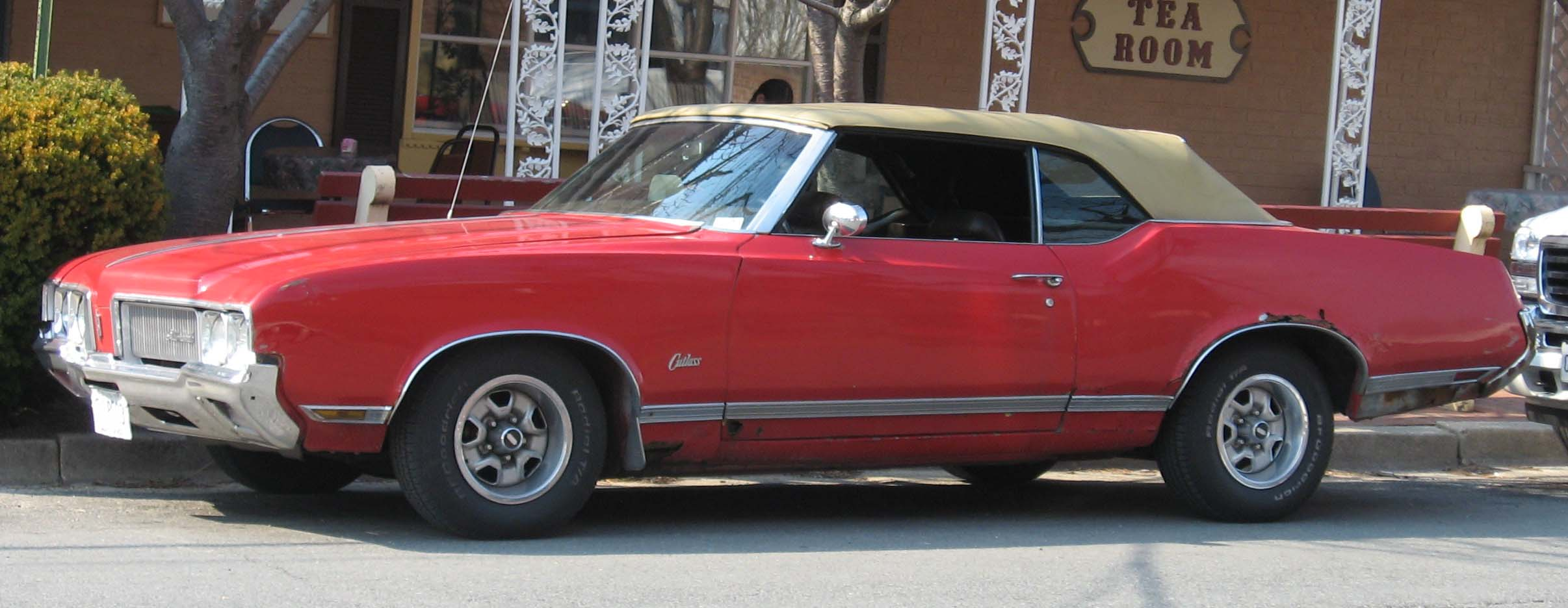 1970 Oldsmobile Cutlass Supreme convertible photographed in USA.